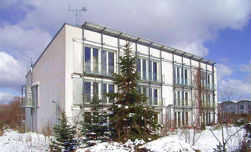 Original Passivhaus, Darmstadt, in winter